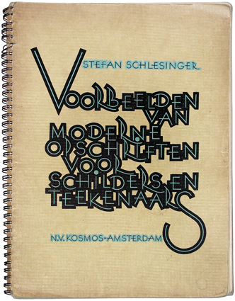 Cover of the book Voorbeelden van Moderne Opschriften voor Schilders en Tekenaars (Amsterdam, 1939). Design by Stefan Schlesinger